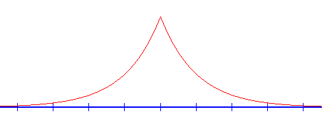 This is a rough image of the wave function solution to the Delta function potential.